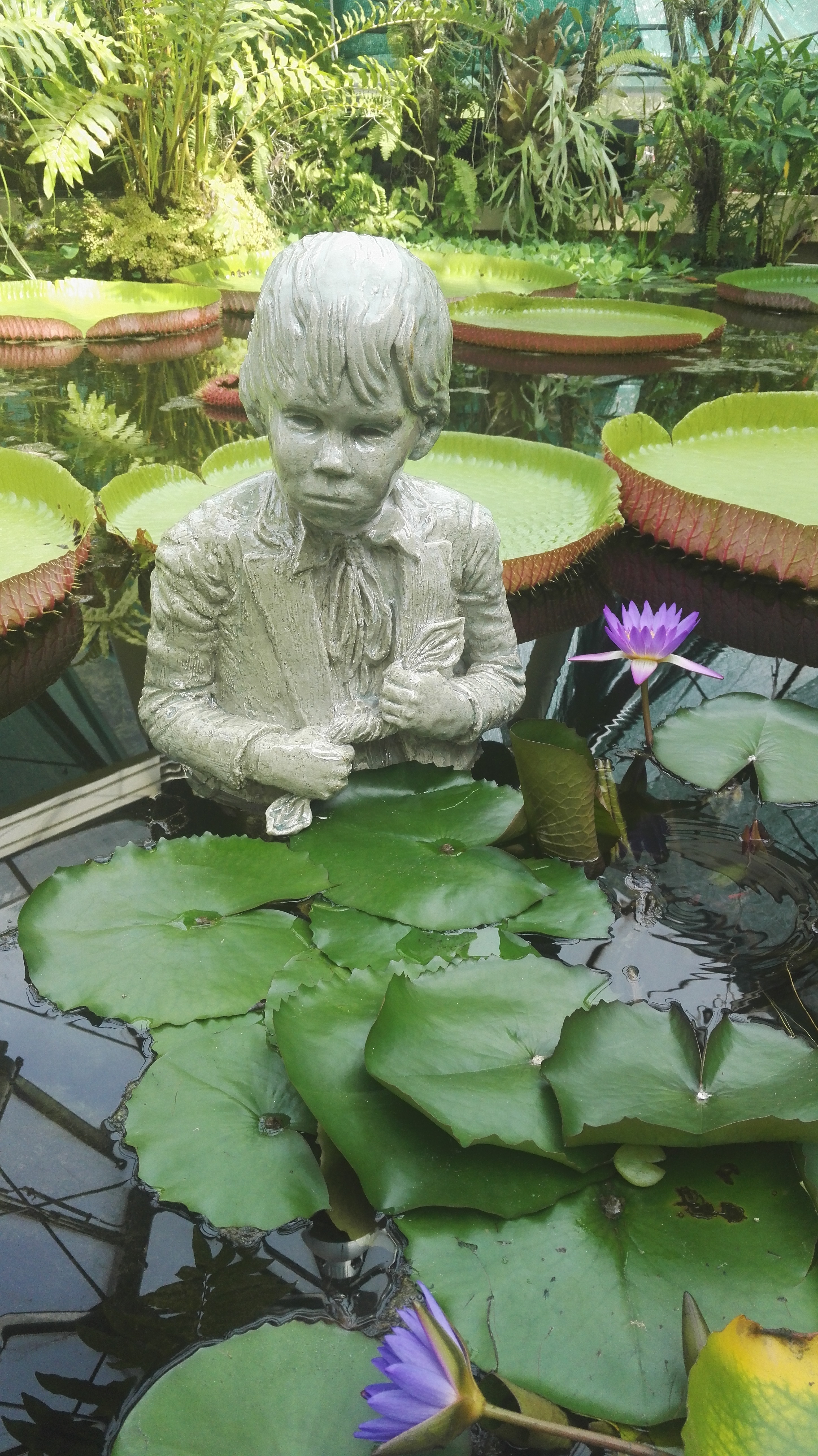 Statue of Ernő Nemecsek, a character from the Hungarian novel "The Paul Street Boys" by Ferenc Molnár. Sculptor: András Zsigó